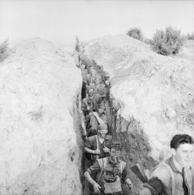 AWM Caption:Unidentified men from B Company, 3rd Battalion, The Royal Australian Regiment (3RAR), moving along a trench to the starting point awaiting for the order to move off on patrol. Steel helmets were considered too noisy so the men a wearing a variety of hats and sweat rags. The men are armed with Owen Machine guns and Short Magazine Lee Enfield (SMLE) .303 rifles. The man second from the front, carrying an Owen gun, wears a pack full of spare ammunition magazines on his chest.